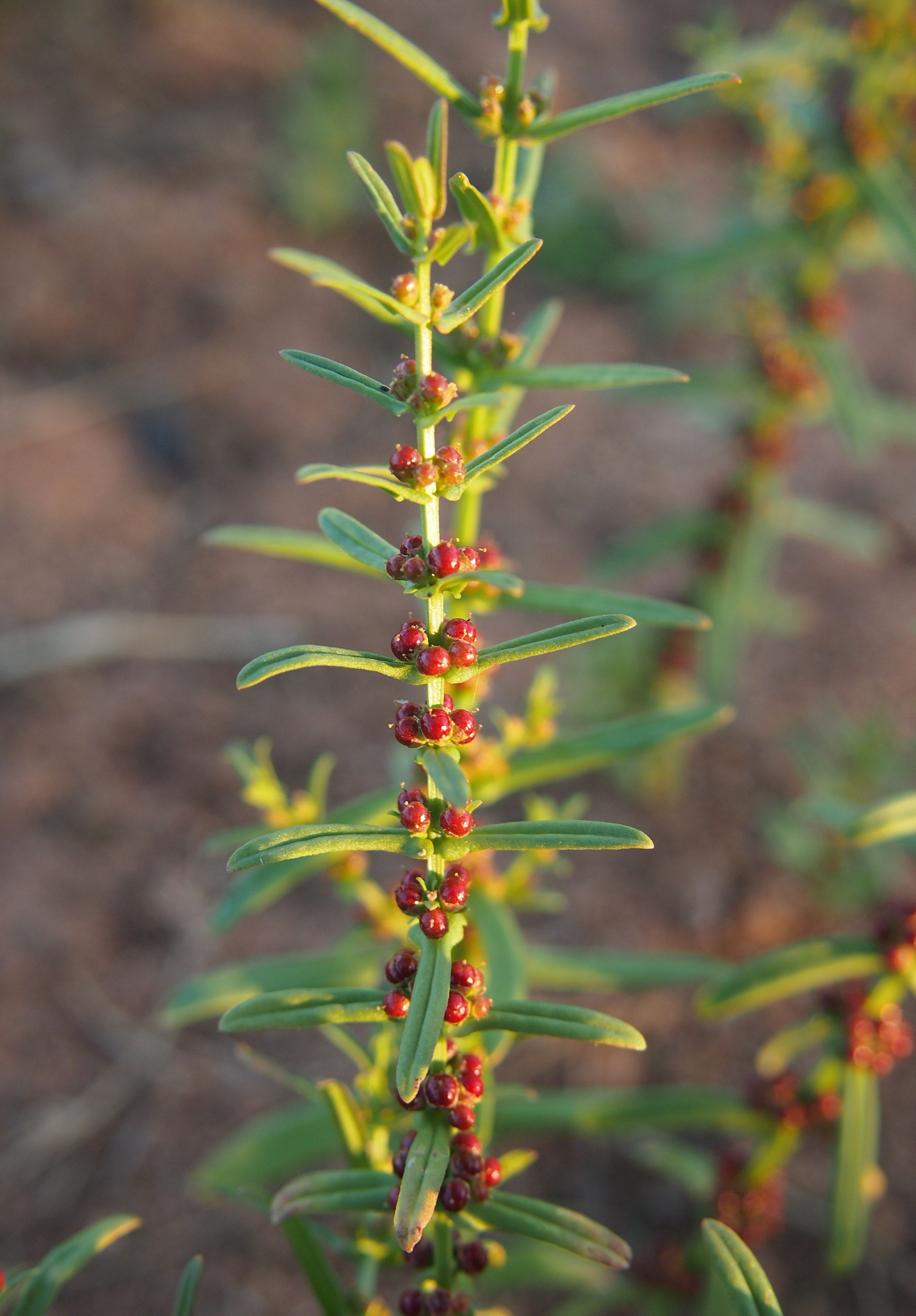 Ammannia multiflora flowers and druit